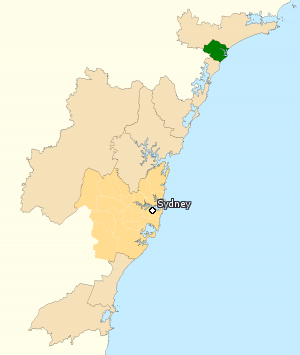 Incorporates or developed using Administrative Boundaries ©PSMA Australia Limited licensed by the Commonwealth of Australia under Creative Commons Attribution 4.0 International licence (CC BY 4.0). Derived from State and Territory Boundaries from the Australian Bureau of Statistics under Creative Commons Attribution 2.5 Australia license (CC BY 2.5 AU)